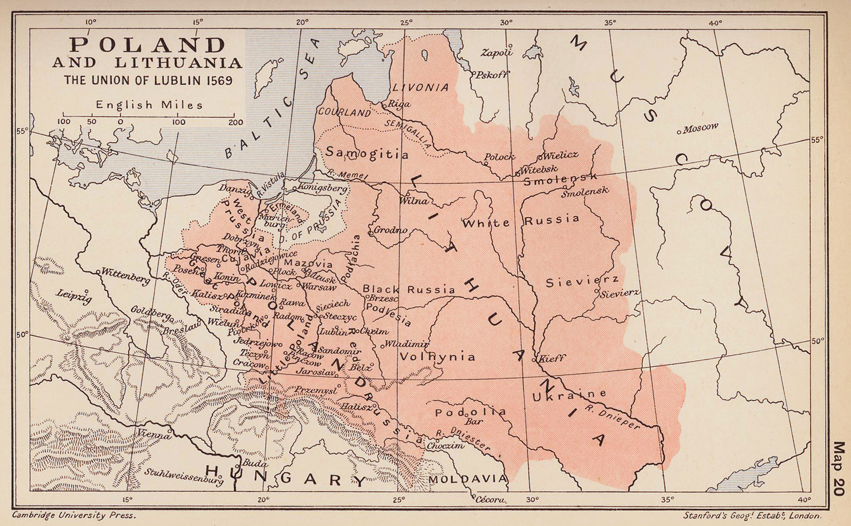 Map of Poland and Lithuania following the Union of Lublin in 1569. Taken from "The Cambridge Modern History Atlas", 1912, London: Cambridge University Press. Editors were Sir Adolphus William Ward (†1924), G.W. Prothero (†1922), and Sir Stanley Mordaunt Leathes (†1938). Individual authors of works making up the atlas are not identified, nor are the likely to be, after reasonable research.